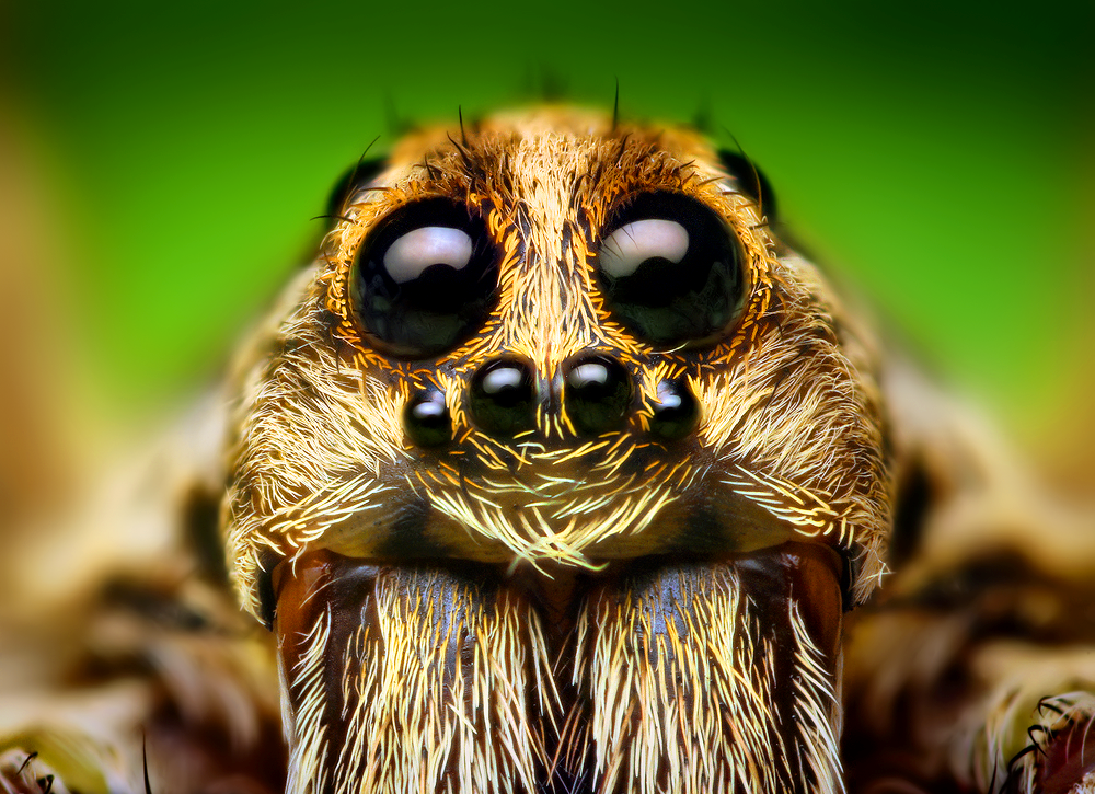 Unfortunately I still don't know the gender or species of this spider - but am confident that it's in the Hogna genus given the markings and eye arrangement. Lycosid eyes may not be as clear or reflective as salticid eyes, but their arrangement is just as fascinating and wolf spiders supposedly have pretty good vision (although not nearly as applauded as the jumping spiders). A couple of times while photographing the spider seen above, his/her eyes would light up at certain angles just as cat eyes do in the dark - really on odd sight to see a spider with glowing eyes! The image above was stacked from 5 photos using Zerene Stacker. The shots were taken at about 4:1 magnification with a vintage Pentax Takumar 28mm prime reversed to a set of extension tubes.